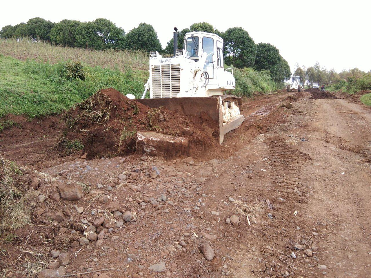 Bukavu, South-Kivu,DR Congo : The Chinese Engineer Contingent of MONUSCO and the Provincial Government of South Kivu are jointly rehabilitating the Miti-Mugaba and Mugaba-Miowe stretch of road, a total distance of 42 Km. The Provincial authorities of the province provided local construction materials mainly gravels for the construction. Photo MONUSCO/Biliaminou Alao